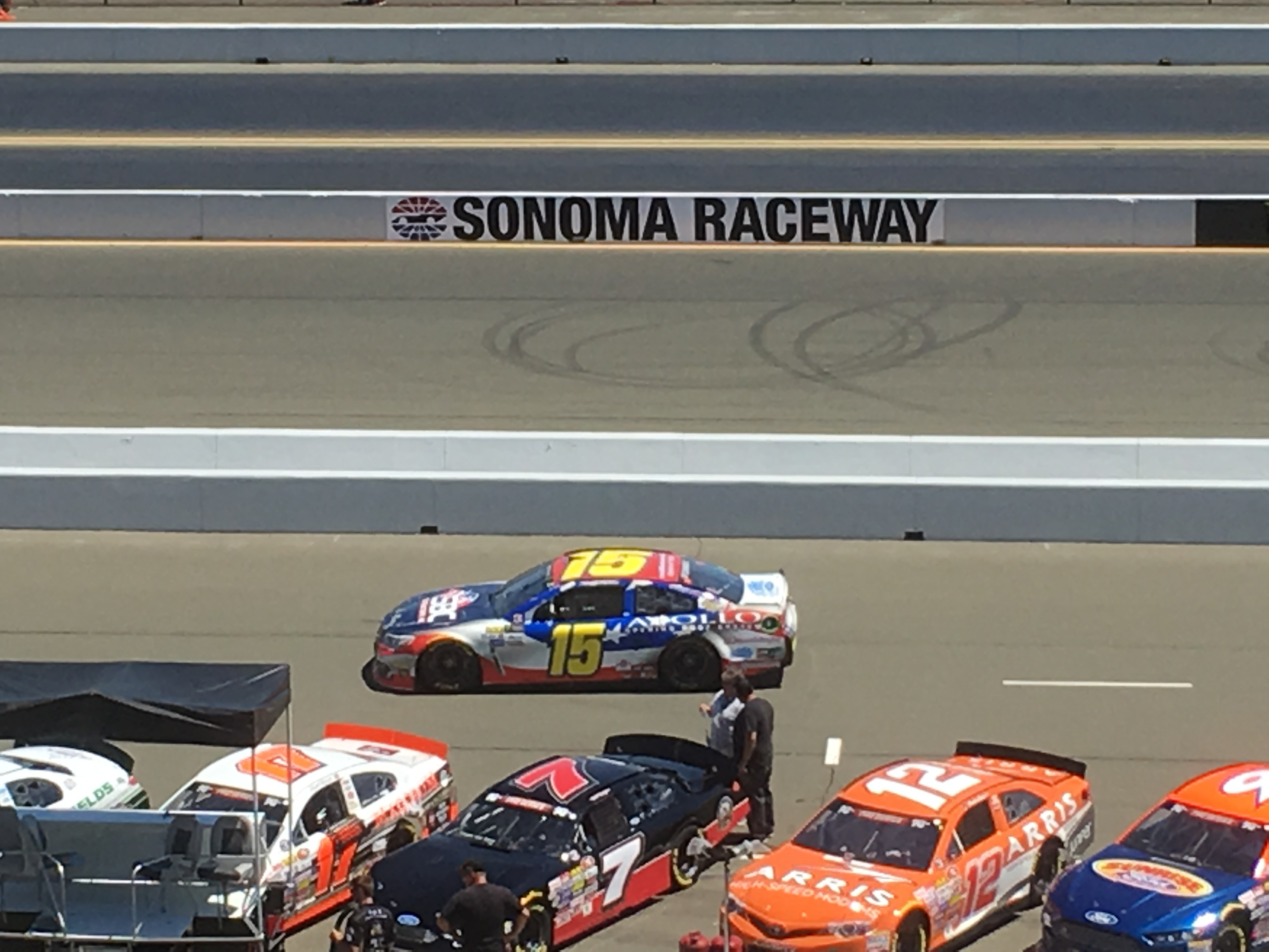 Kevin O'Connell during qualifying for the 2017 Toyota/Save Mart 350.